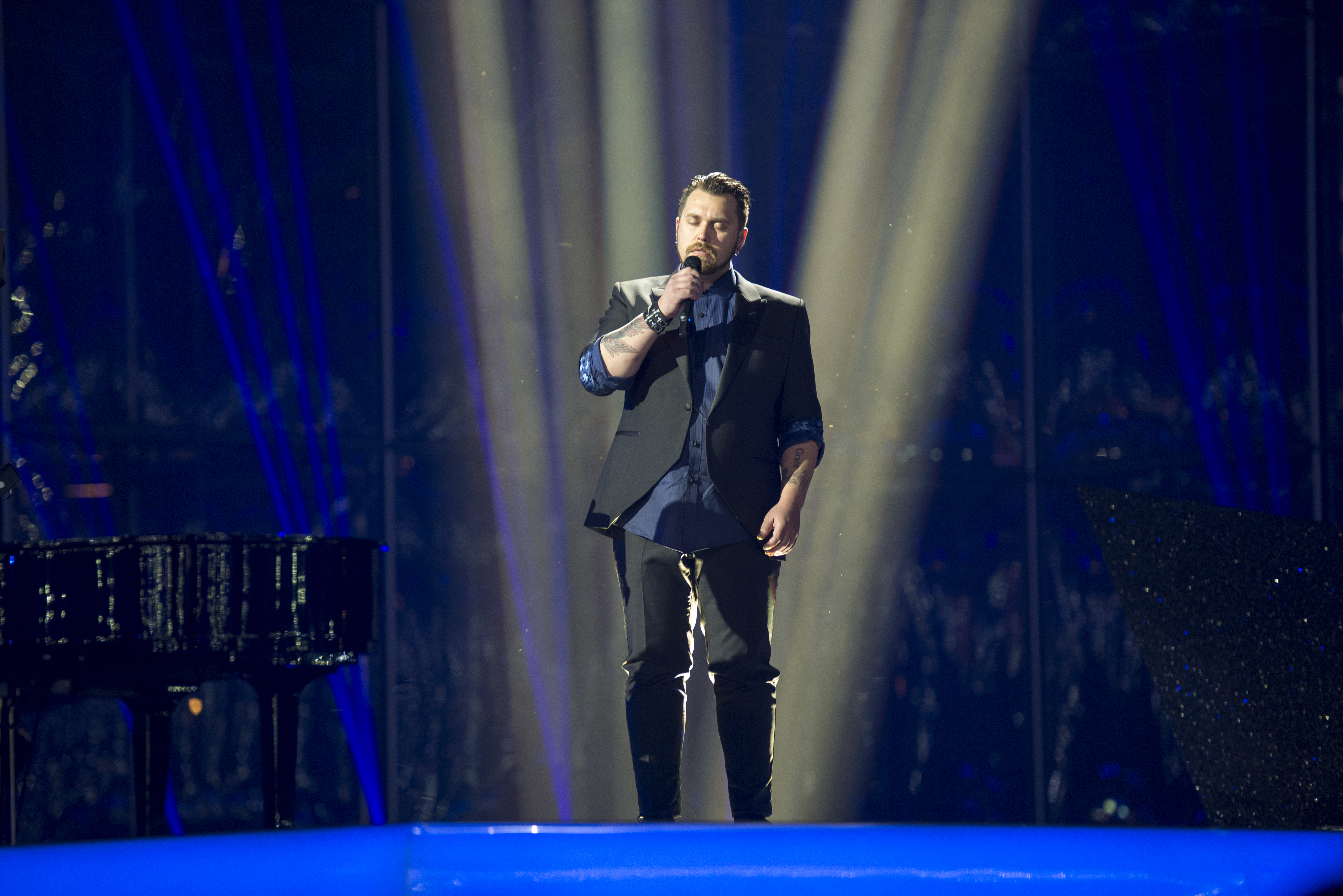 Carl Espen representing Norway with the song "Silent Storm" during the first dress rehearsal of the second semi final of the Eurovision Song Contest 2014 Copenhagen. (Help translate this text)